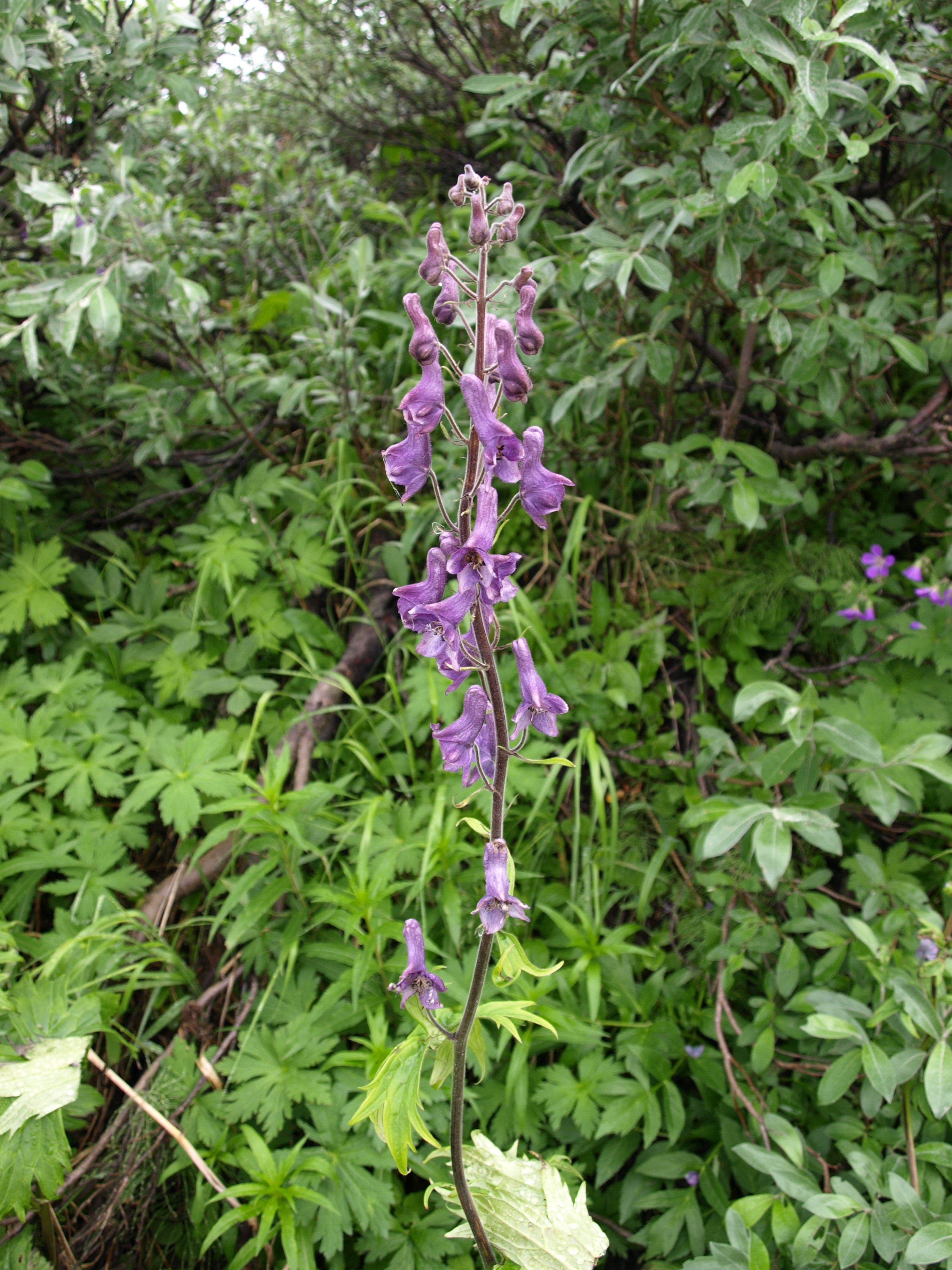 Aconitum lycoctonum